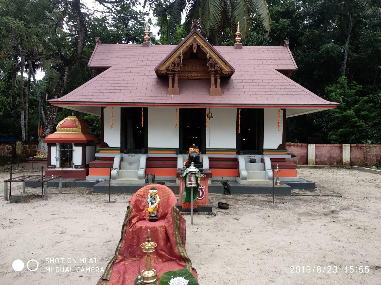 Kottadi Amman Kovil, Panavally